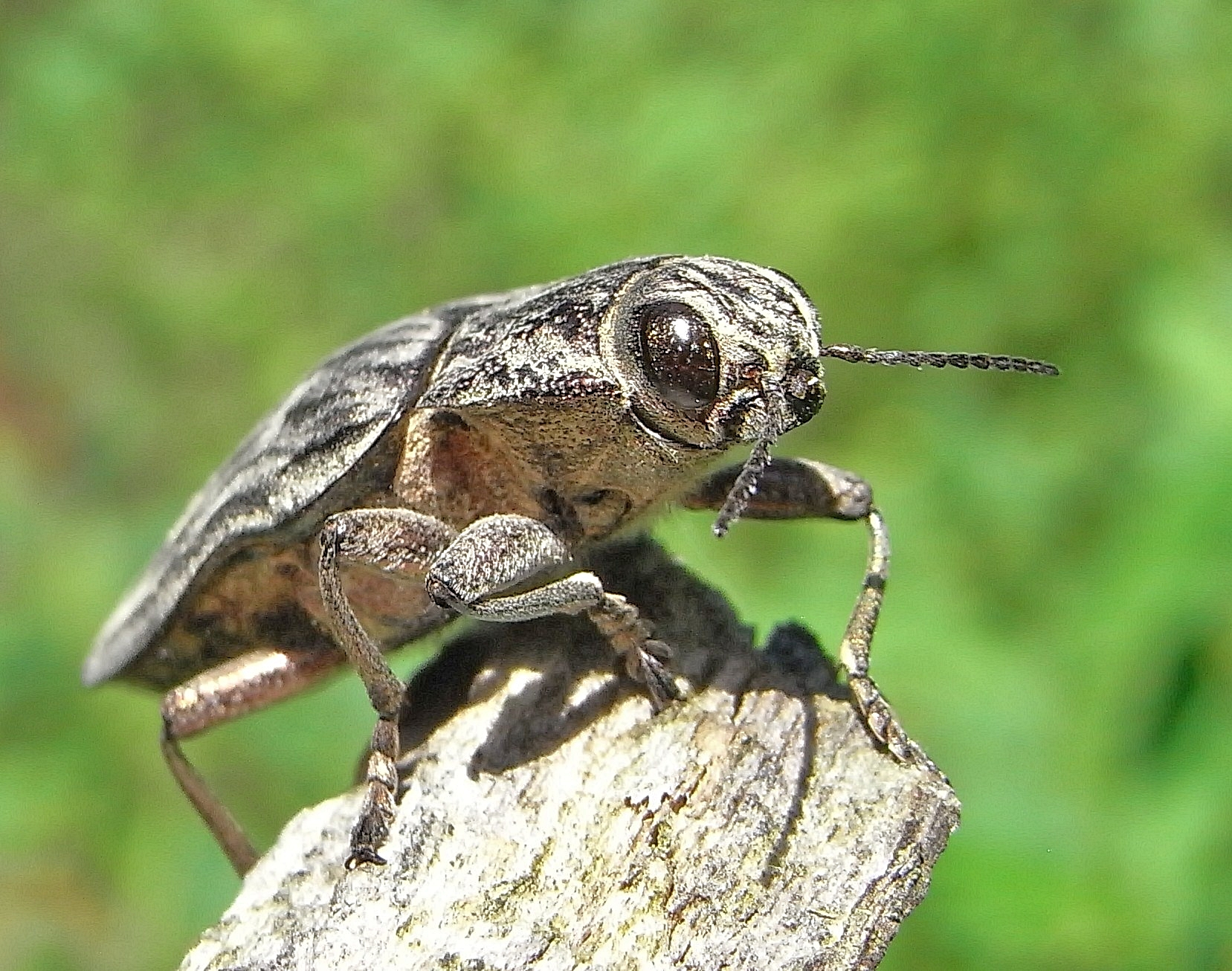 Chalcophora mariana from Hungary, Vertes-mountains at 2010-07-08 Ricoh R8